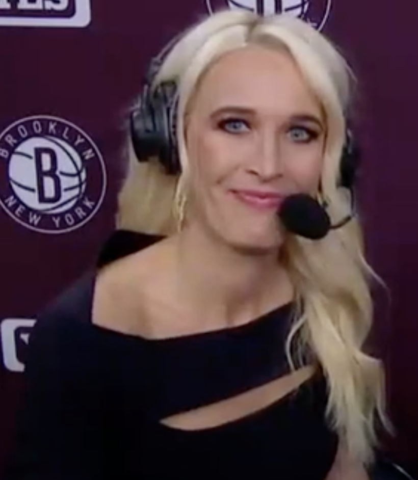 Sarah Kustok on the YES Network in a January 2020 airing